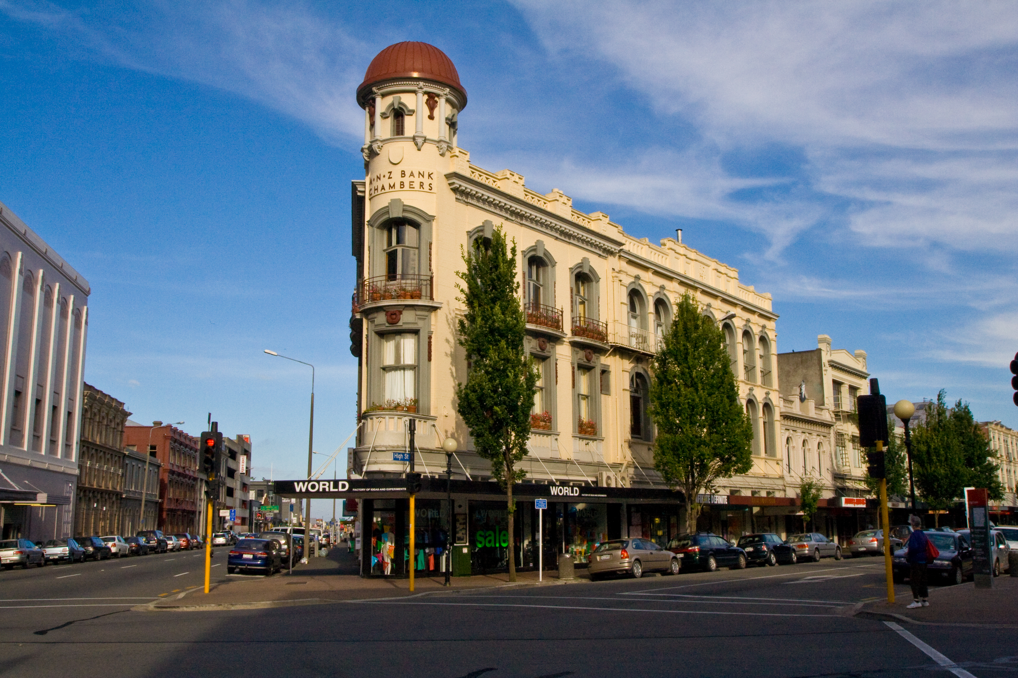 ANZ Bank, Christchurch, in January 2010.